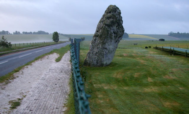 Stonehenge Heel Stone The structure to the right is a walkway providing protecting to the ground from erosion.